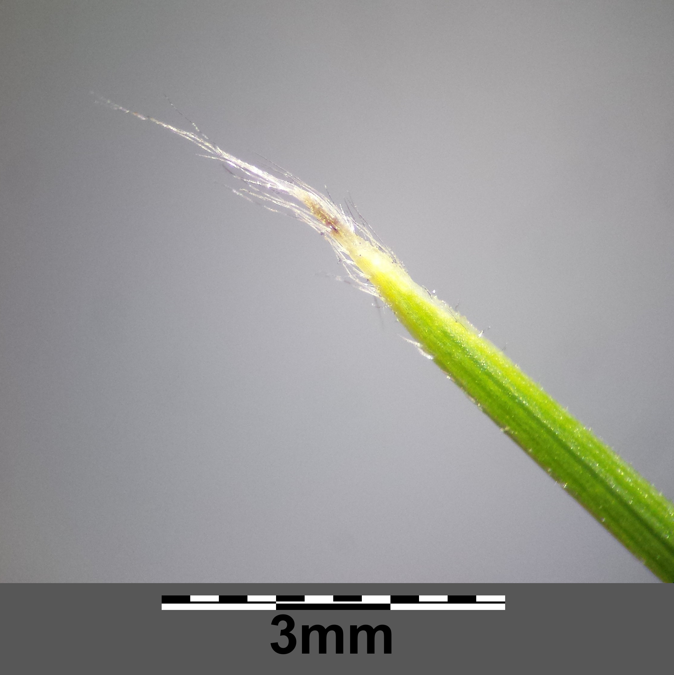 Hairy tip of leaf Taxonym: Stipa pennata ss. orig. ss Fischer et al. EfÖLS 2008 ISBN 978-3-85474-187-9 Location: Geißberg near Eggendorf im Thale, district Hollabrunn, Lower Austria - ca. 300 m a.s.l. Habitat: semi-dry grassland